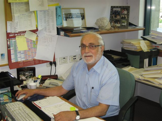 shlomo havlin at the office